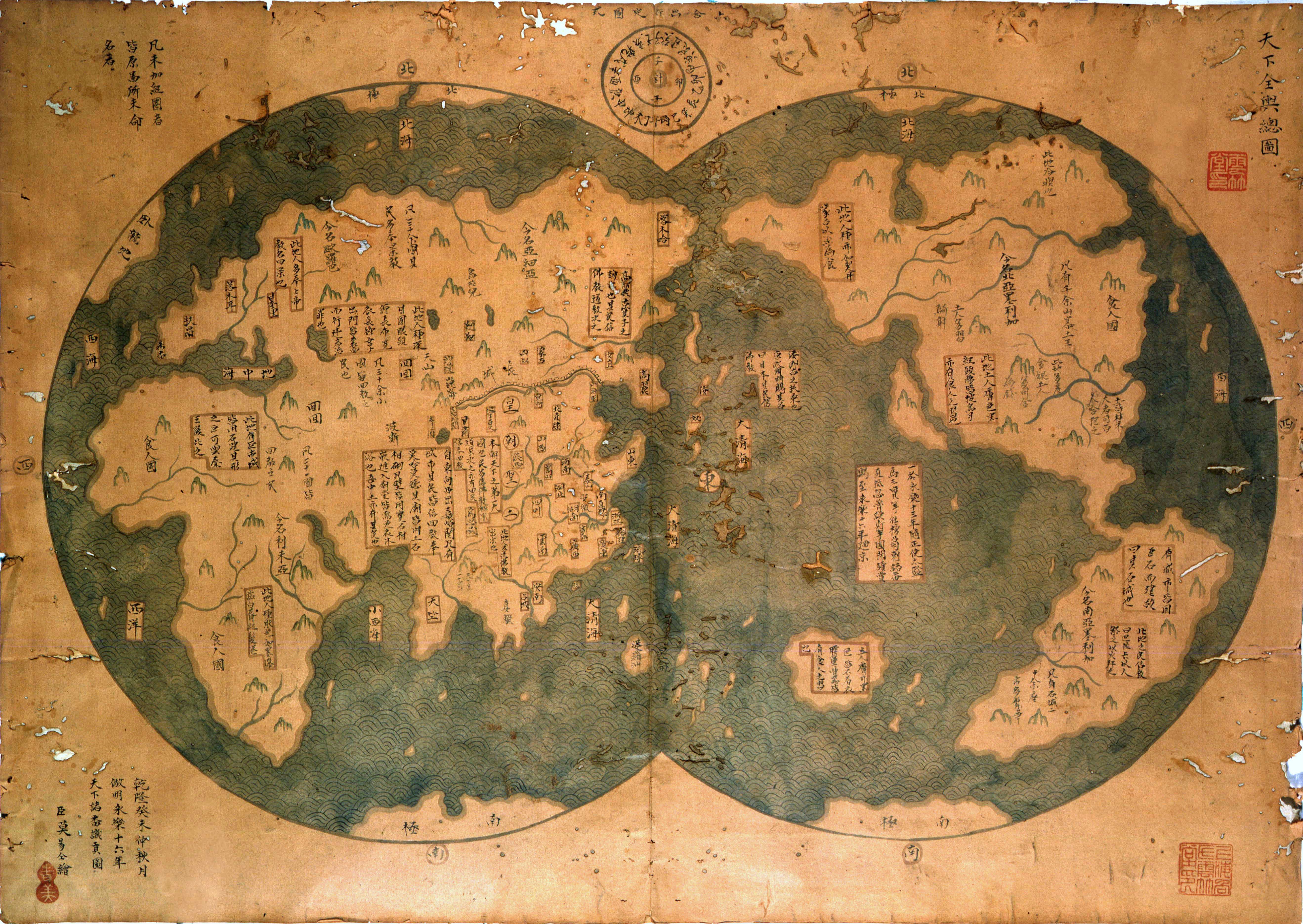 Photo from of a 1763 Chinese map of the world, claiming to be a reproduction of a 1418 map made from Zheng He's voyages. Lui Gang stated he discovered it in 2005 but it is disputed as a possible forgery.